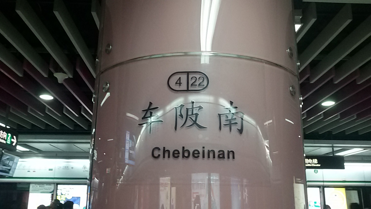 WORD on PILLAR for Chebeinan Station in Line 4